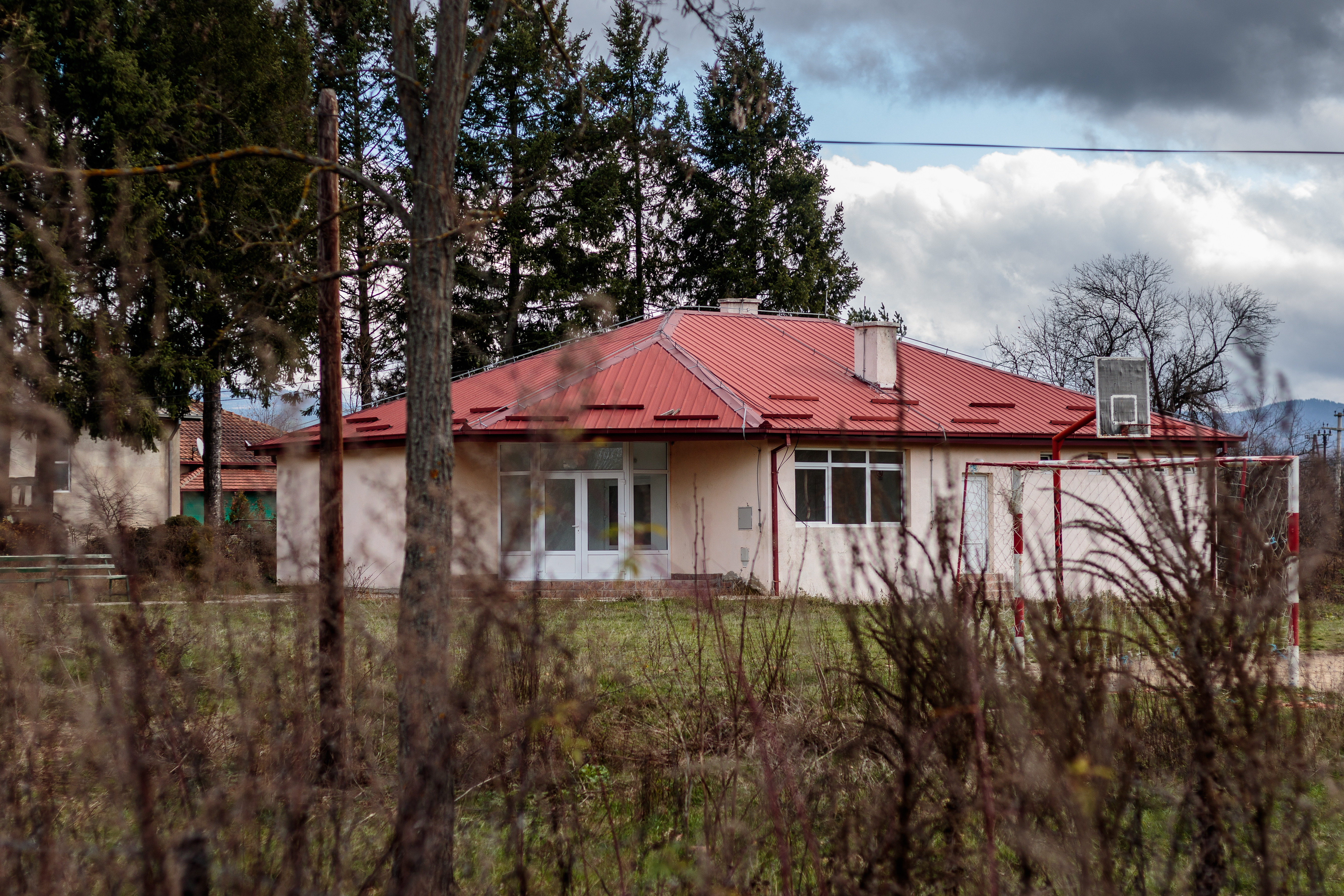 Primary school in the village of Mačevo, Maleševija, Macedonia